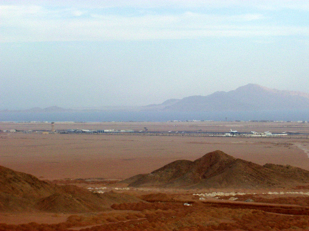 Sharm el-Sheikh Ophira International Airport on Sinai Peninsula, Egypt